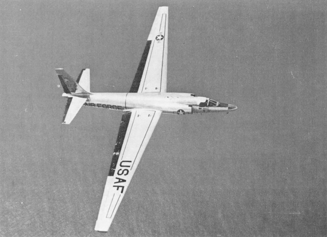 USAF U-2 in flight in the early 1960s